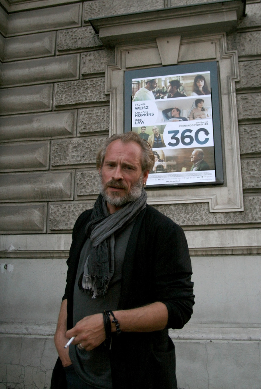 Actor Johannes Krisch at the Austrian premiere of the movie 360 (Volkstheater in Vienna)